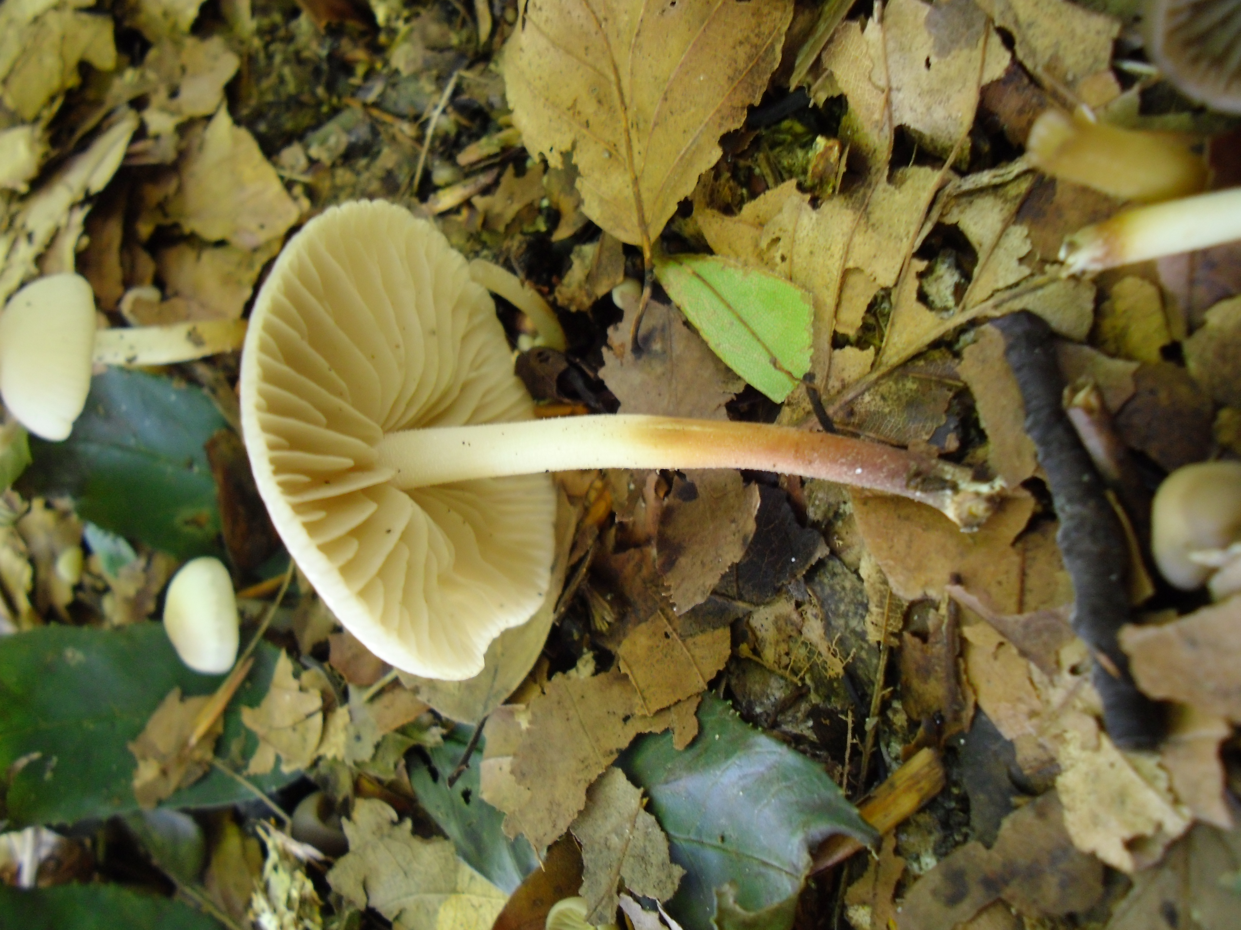 Marasmius wynneae Berk. & Broome Image location: Haagse Bos, Den Haag, Zuid-Holland, Netherlands Recognized by sight: Confirmed by Nico Dam For more information about this, see the observation page at Mushroom Observer.